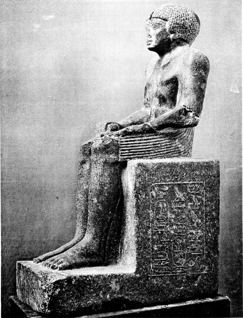 Statue of King Sahura (5th dynasty), made during the reign of Senusret I (12th dynasty), found at Karnak temple; Egyptian Museum, Cairo (CG 42004)